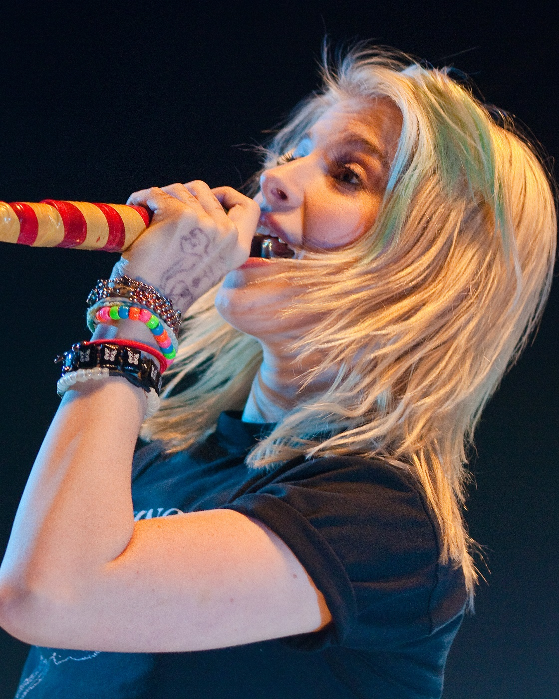 Cropped version of File:Flickr - moses namkung - Paramore-3.jpg.